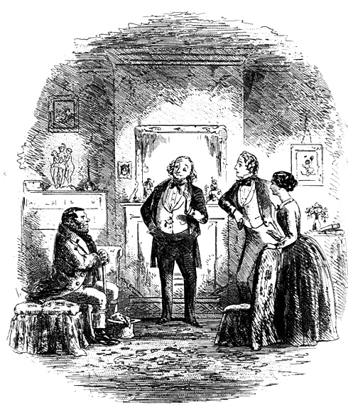 Coavinses Phiz (Hablot K. Browne) 1853 Etching 4 1/8 x 4 1/8 inches on a page of 8 7/16 x 5 inches Facing p. 52 of Dickens's Bleak House